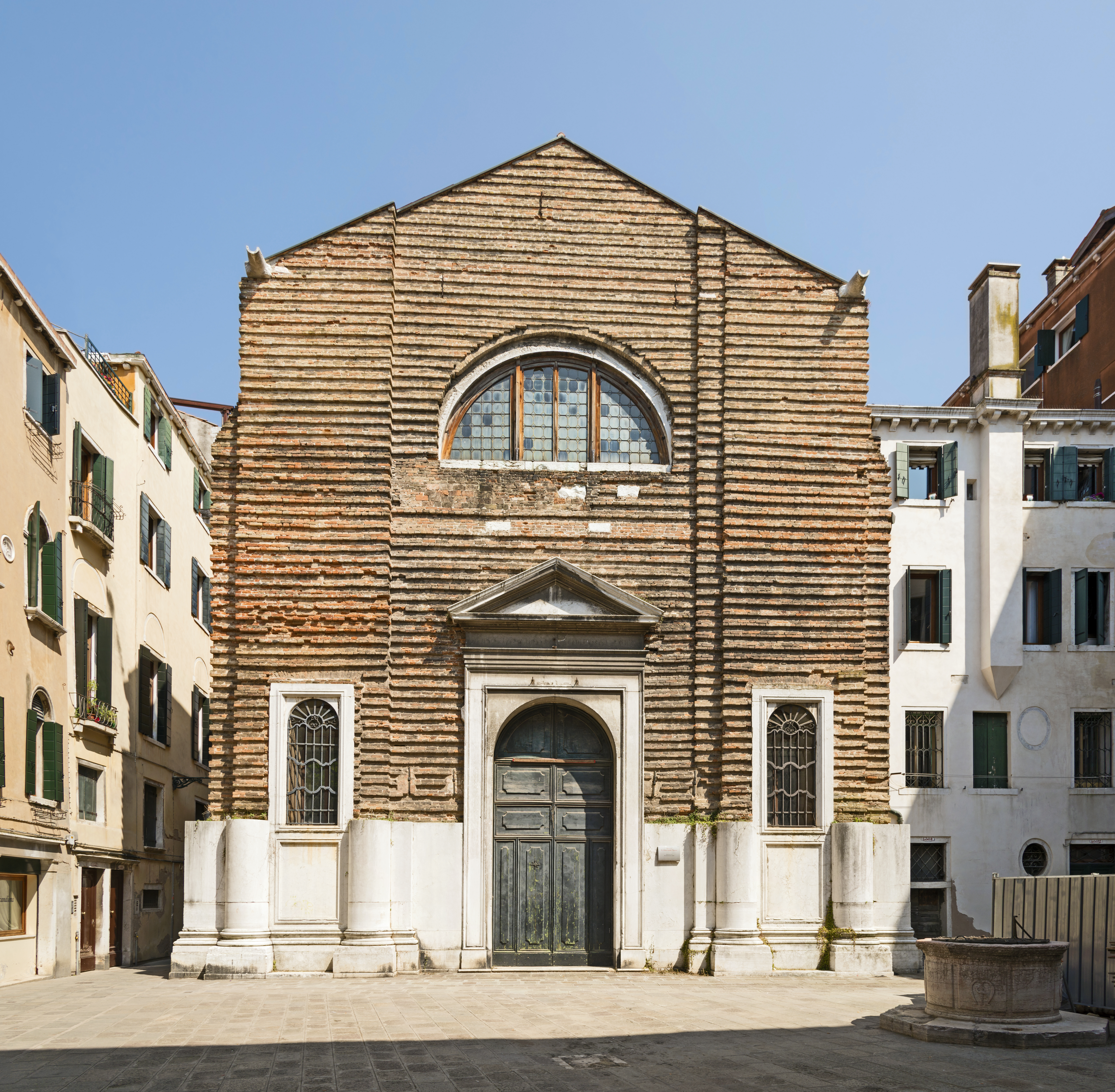 San Giovanni Nuovo, Venice Facade on Campo San Zaninovo.